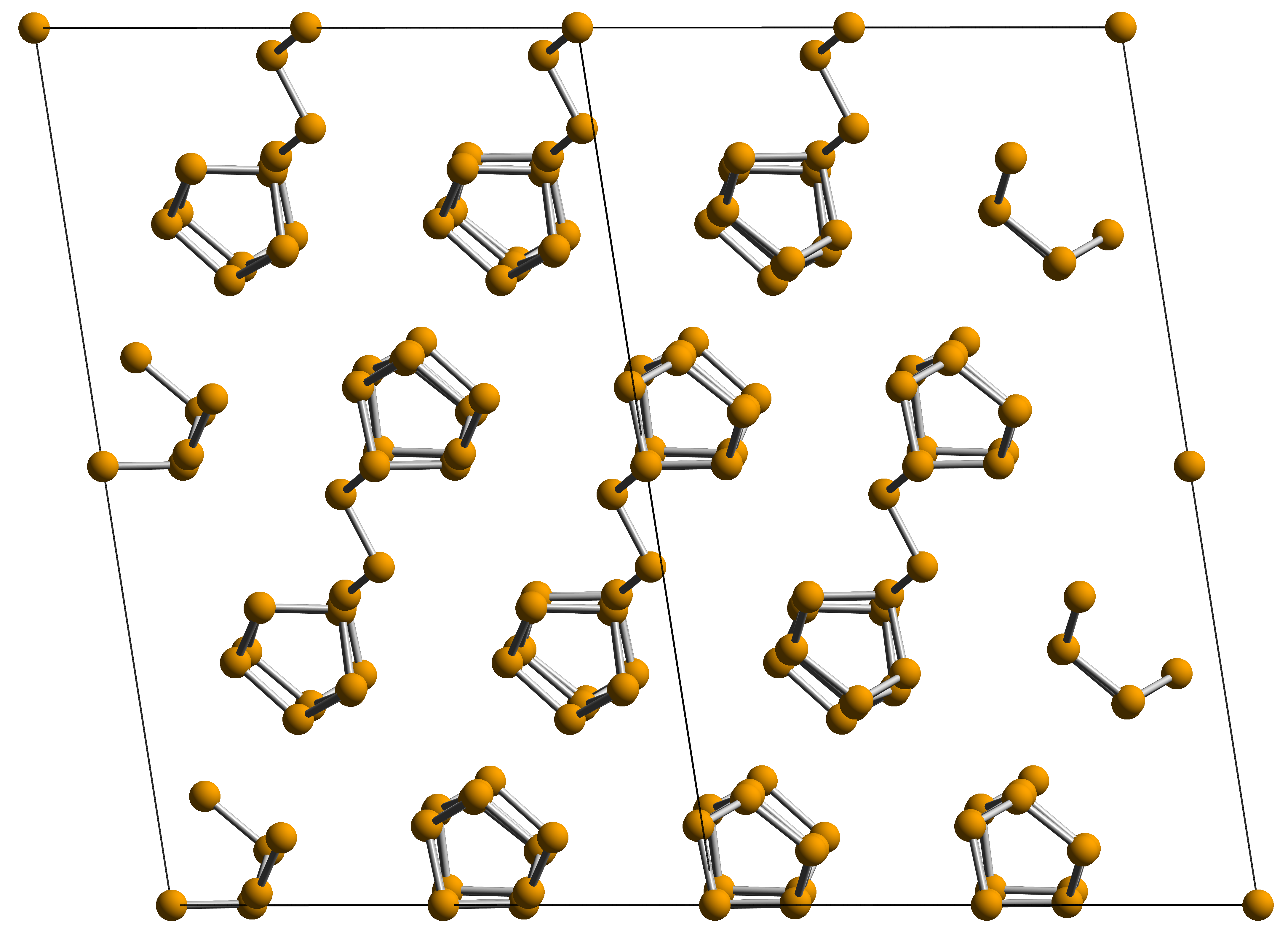 This unit cell contains 42 atoms and has spacegroup P-1